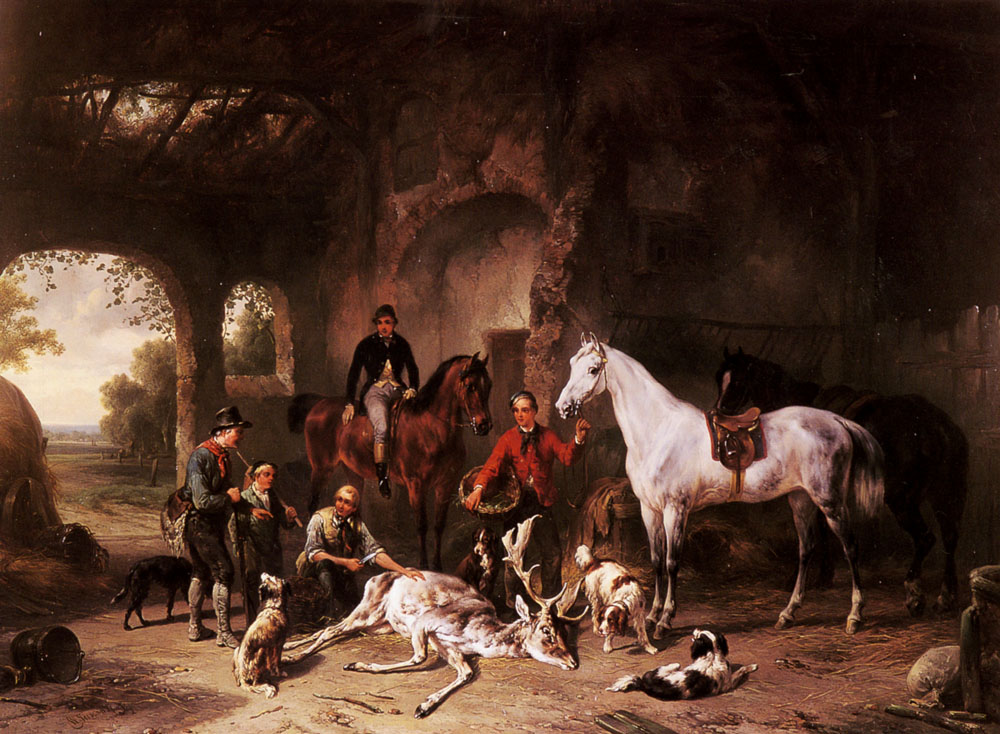 The Return from the Hunt